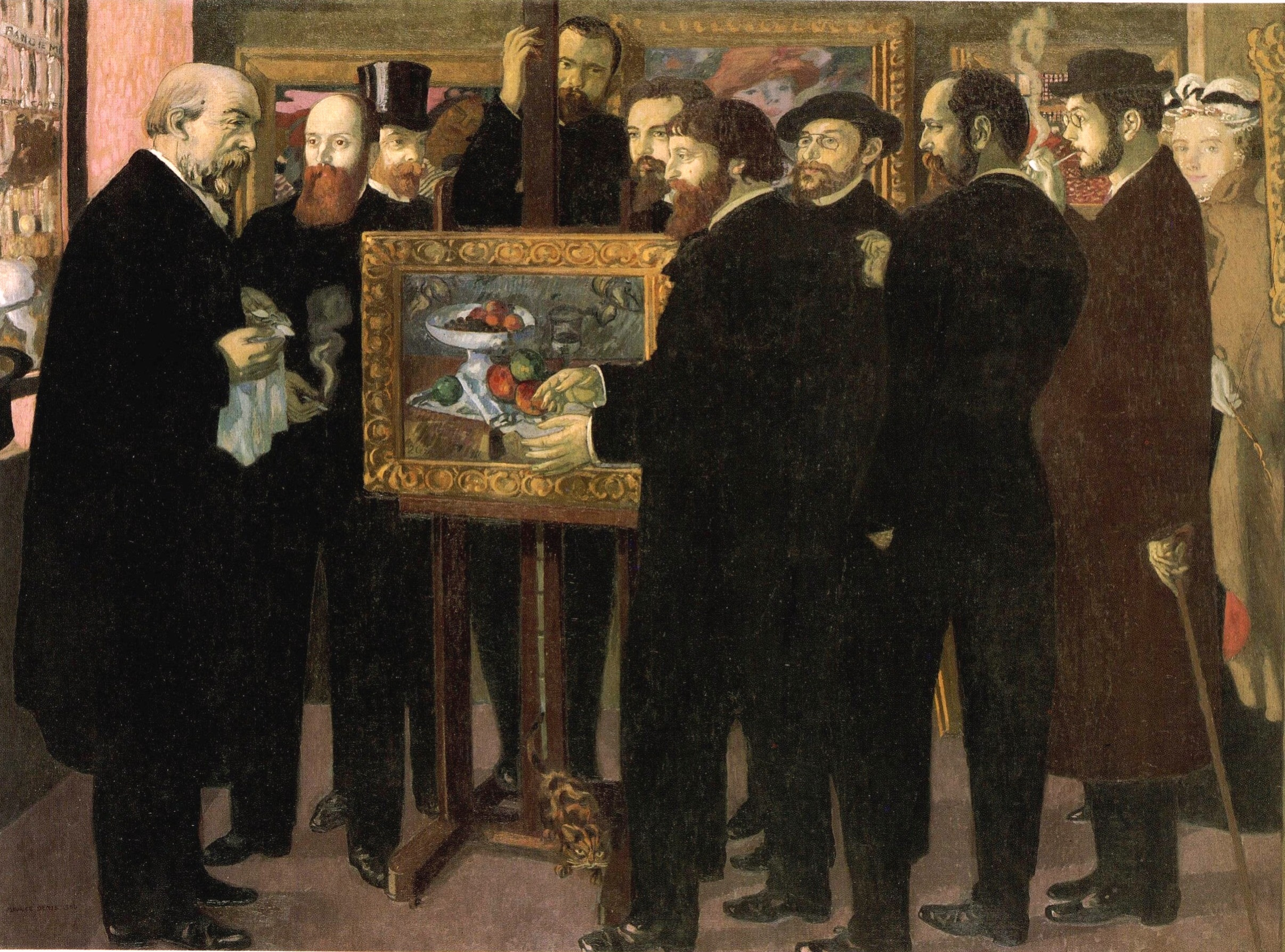 This painting rings out like a manifesto. Maurice Denis has assembled a group of friends, artists and critics, in the shop of the art dealer, Ambroise Vollard, to celebrate Paul Cézanne, who is represented by the still life on the easel. This painting, Fruit Bowl, Glass and Apples had belonged to Paul Gauguin, who is also evoked among the tutelary examples to whom Denis is paying homage. Effectively, a painting by Gauguin and another by Renoir can be made out in the background. Odilon Redon is also given pride of place: he is shown in the foreground on the far left and most of the figures are looking at him. He is listening to Paul Sérusier who is standing in front of him. From left to right, we can recognise Edouard Vuillard, the critic André Mellerio in a top hat, Vollard behind the easel, Maurice Denis, Paul Ranson, Ker-Xavier Roussel, Pierre Bonnard smoking a pipe, and lastly Marthe Denis, the painter's young wife. Part of the Nabi generation is gathered here in a composition which follows on from the homage paid by Fantin-Latour in several paintings, especially A Studio at Les Batignolles in the Musée d'Orsay. When Maurice Denis exhibited his work in Paris and Brussels in 1901, reactions were sometimes hostile. In his diary, the artist referred to it as "that painting, which still makes the public laugh". His friend, the writer André Gide, immediately offered to buy it. He did not part with it until 1928 when he gave it to the Musée du Luxembourg.